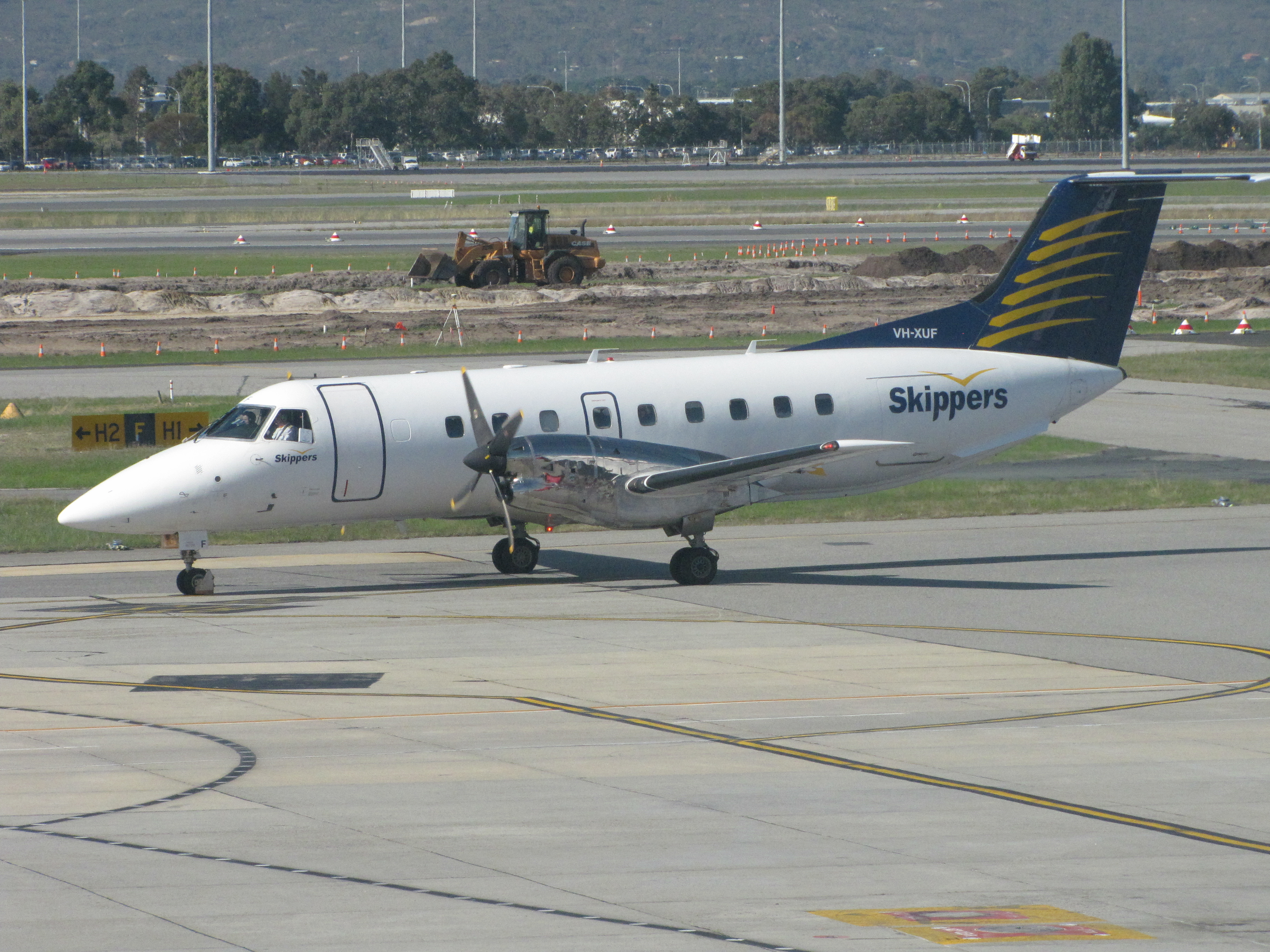 Skippers Aviation (VH-XUF) Embraer EMB 120 Brasilia at Perth Airport.